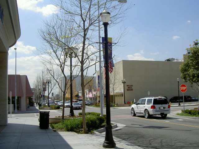 Downey Avenue